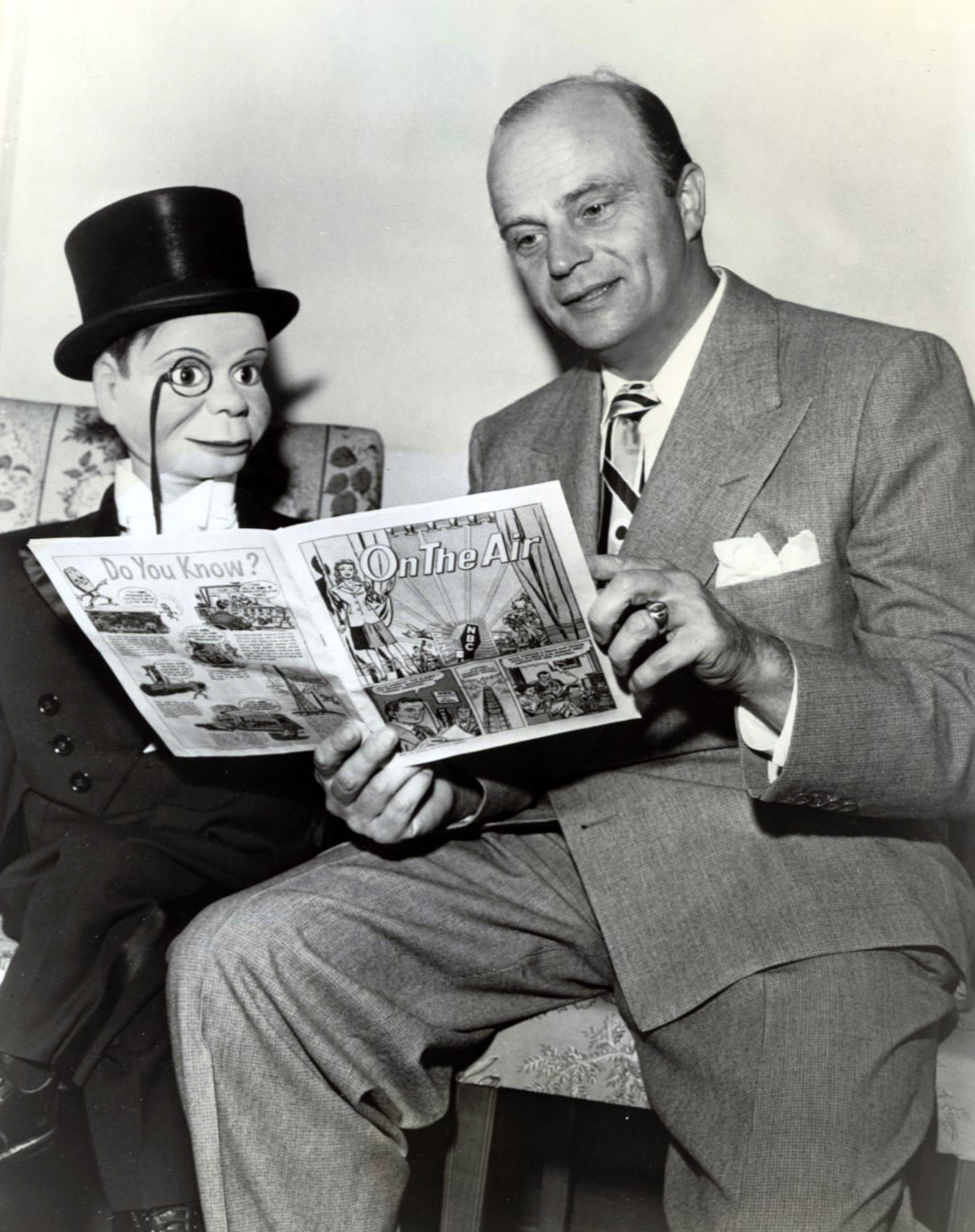 Photo of Edgar Bergen and Charlie McCarthy from NBC Radio. They are reading an NBC-produced comic book, On the Air, which told the story of what happens behind the scenes in radio broadcasts in a children's format.